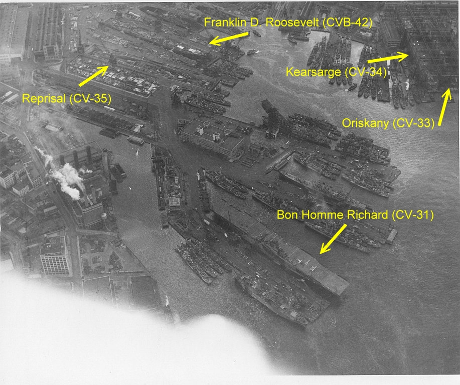 Aerial view of the Brooklyn Navy Yard, BuAer photo # 290081, received 2 December 1944. There are five aircraft carriers in sight : (1) Reprisal (CV-35) under construction in Dry Dock #6; (2) Coral Sea, later Franklin D. Roosevelt (CVB-42) under construction in Dry Dock #5; (3) Kearsarge (CV-33) under construction; (4) Oriskany (CV-34) under construction; and (5) USS Bon Homme Richard (CV-31), commissioned 26 November 1944.